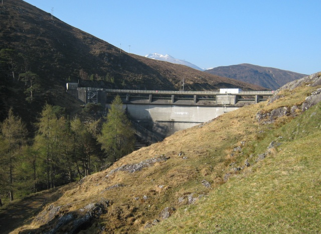 Monar Dam